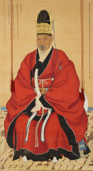 “Portrait of Chae Jegong in Geumgwanjobok” painted by Yi Myeong-gi in 1792, held by Sangeuisa in South Korea